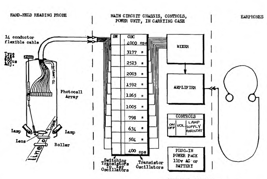 Schematic Diagram of Battelle Optophone